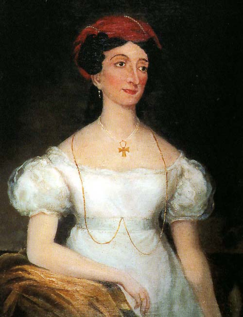 Portrait of Lady Ann Warden Spencer (1793–1855) of Charmouth in West Dorset. She emigrated to Albany, Western Australia with her husband Sir Richard Spencer.